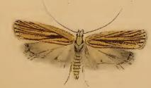 Stainton’s Natural History of the Tineina (1855–1873): Agonopterix umbellana